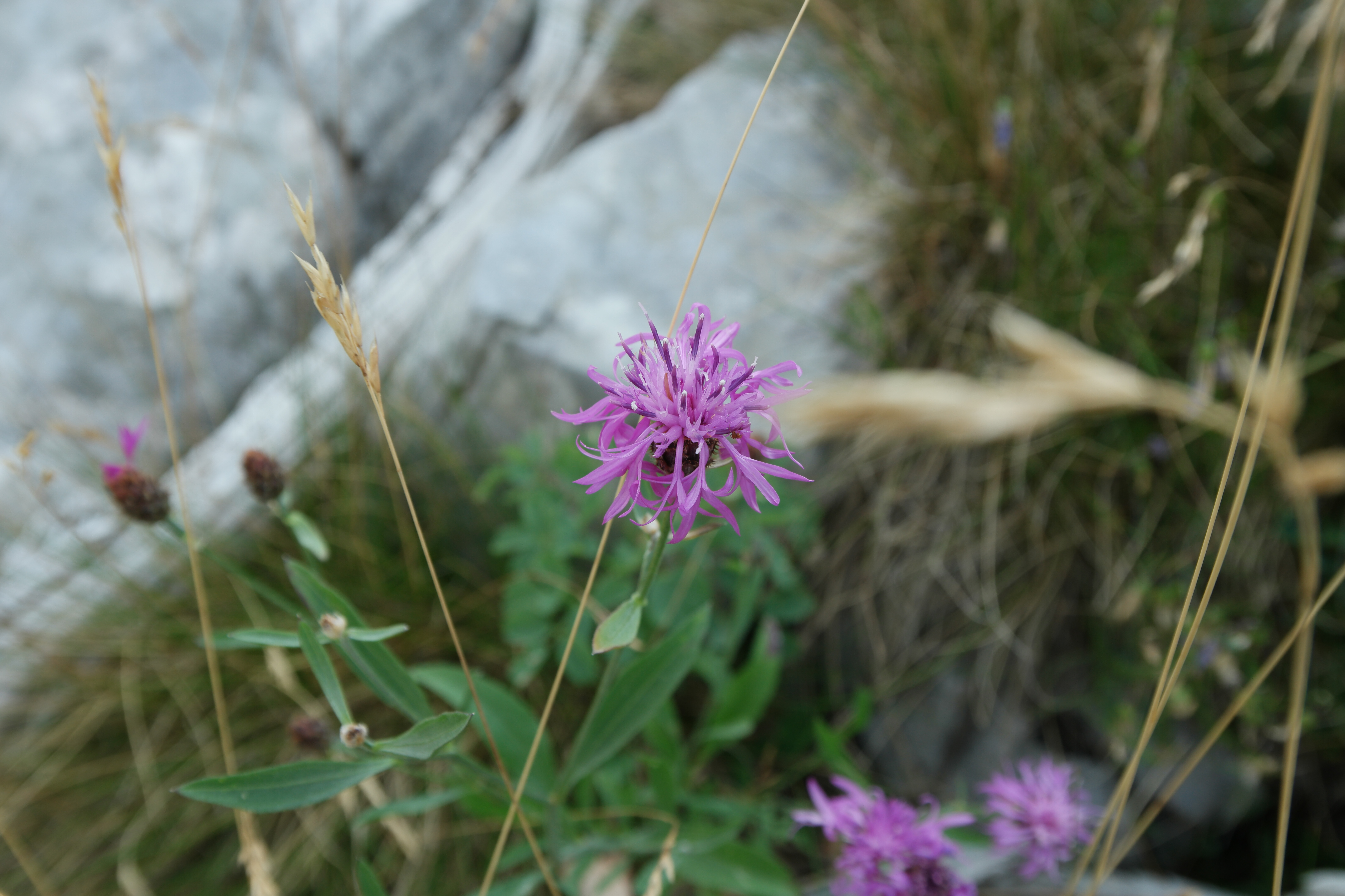 Centaurea incompta from Montenegro